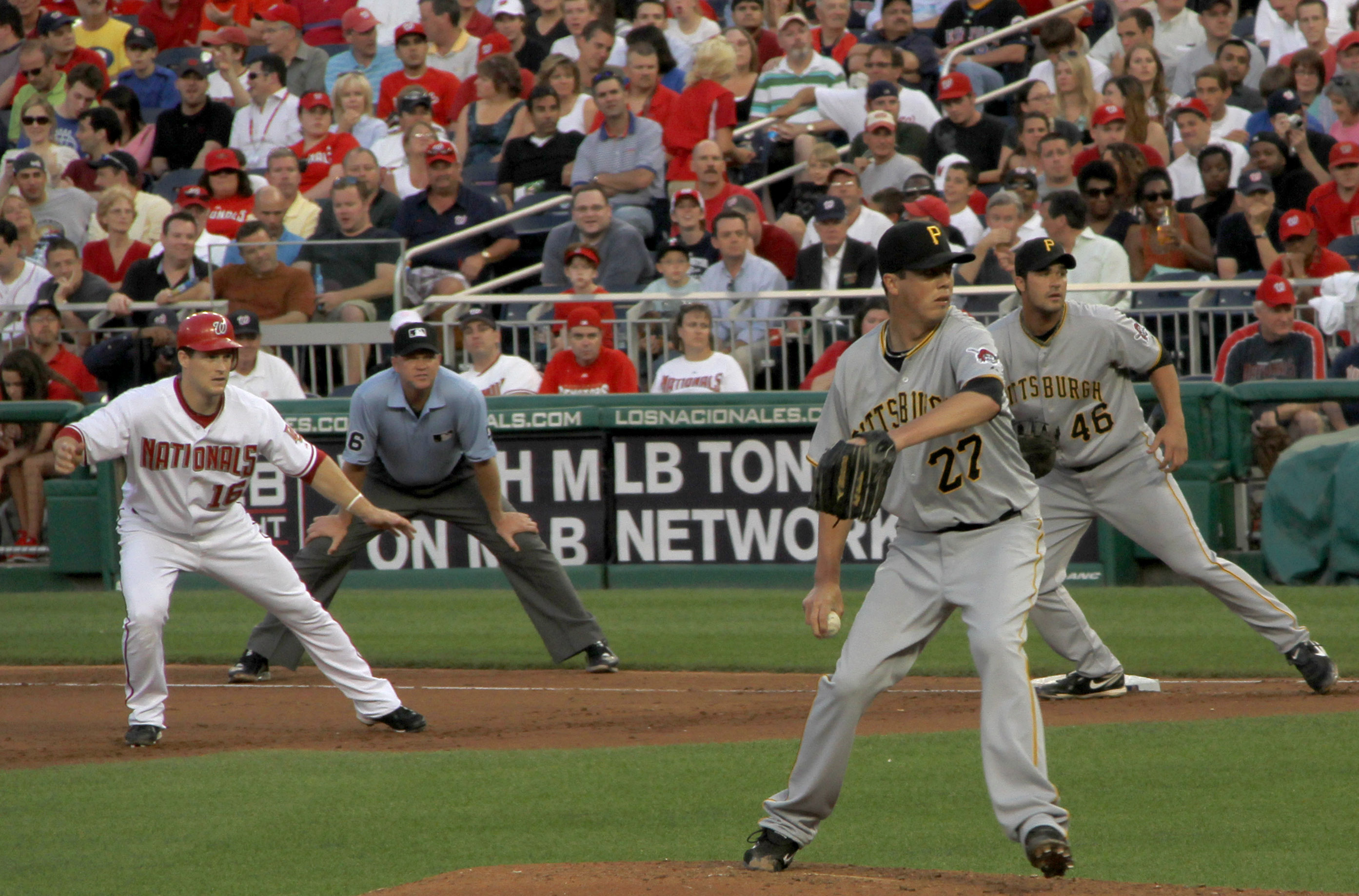 Nationals 5 / Pittsburgh Pirates 2....#16 Josh Willingham, #27 Jeff Karstens, #46 Garrett Jones